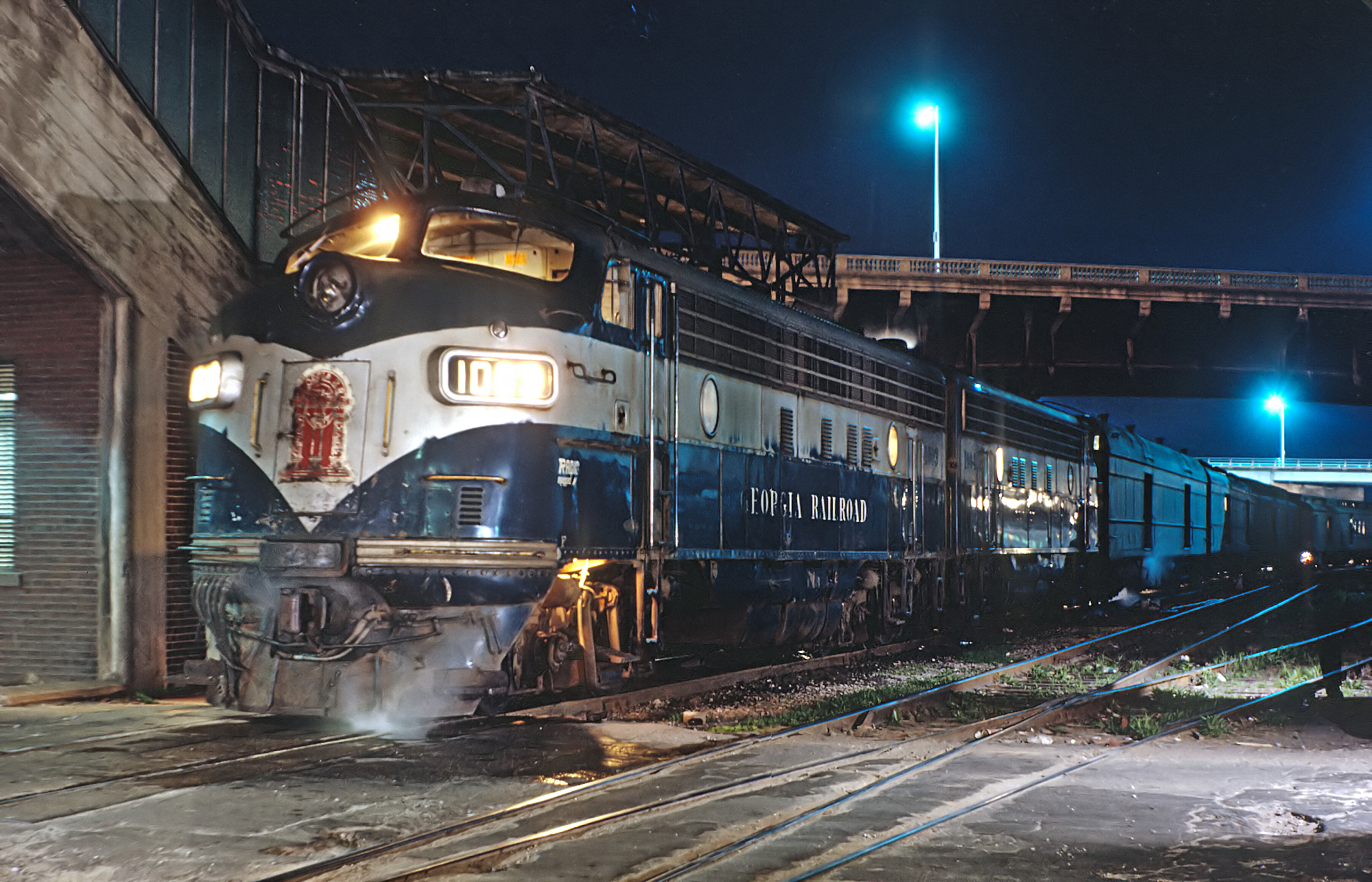 A Roger Puta Photograph.